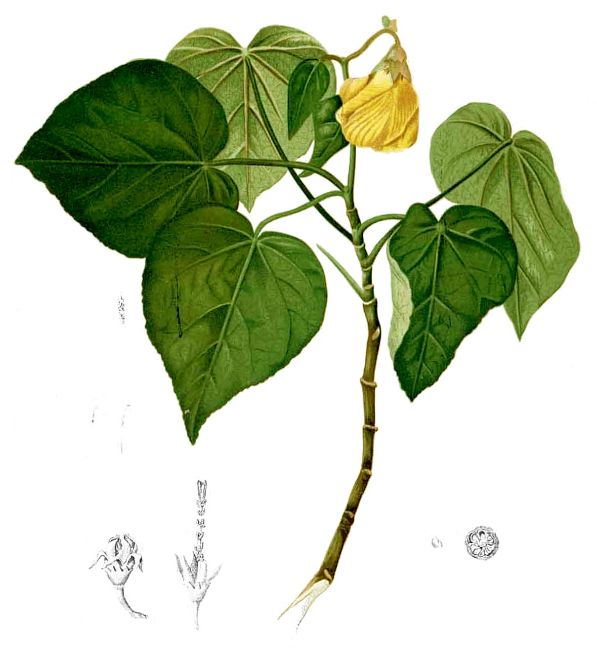 Plate from book